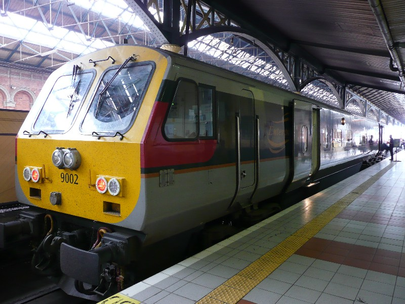 Enterprise at Connolly station